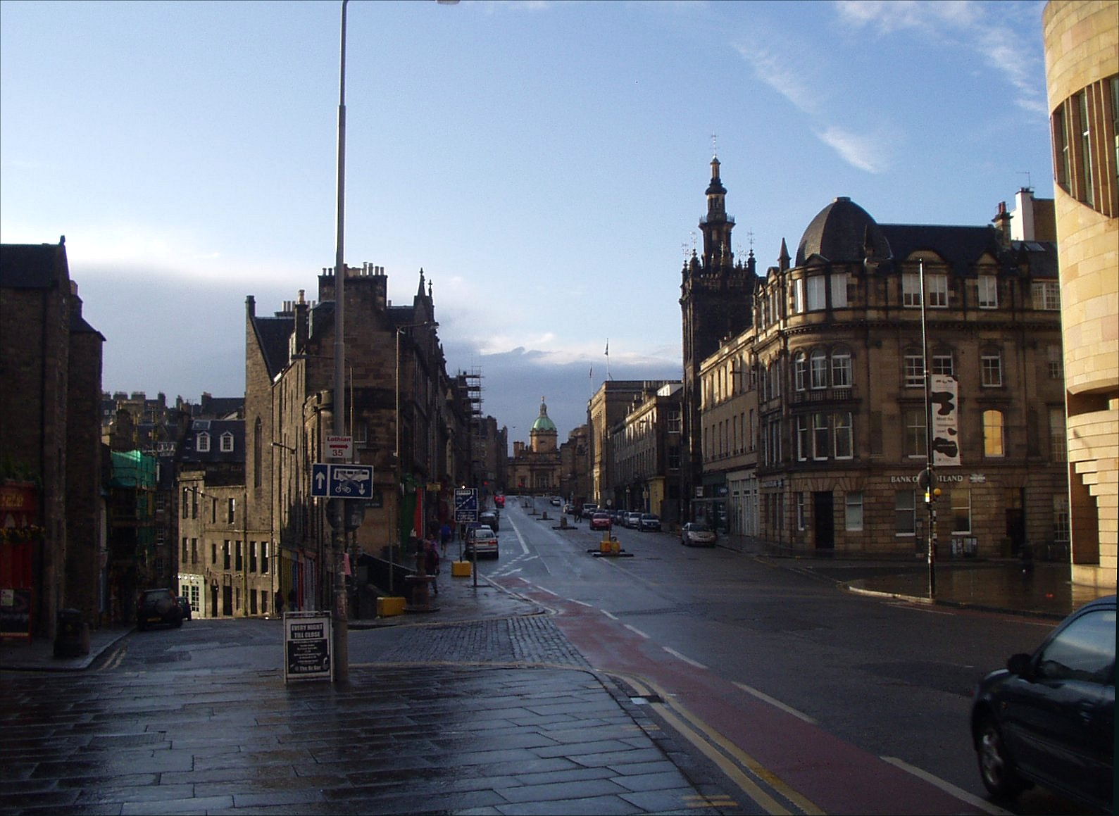 View along George IV Bridge, Edinburgh, Scotland. The statue of Greyfriars Bobby is in the middle, Greyfriars Kirkyard is off the left, the Museum of Scotland and the tower of Augustine United Church are to the right